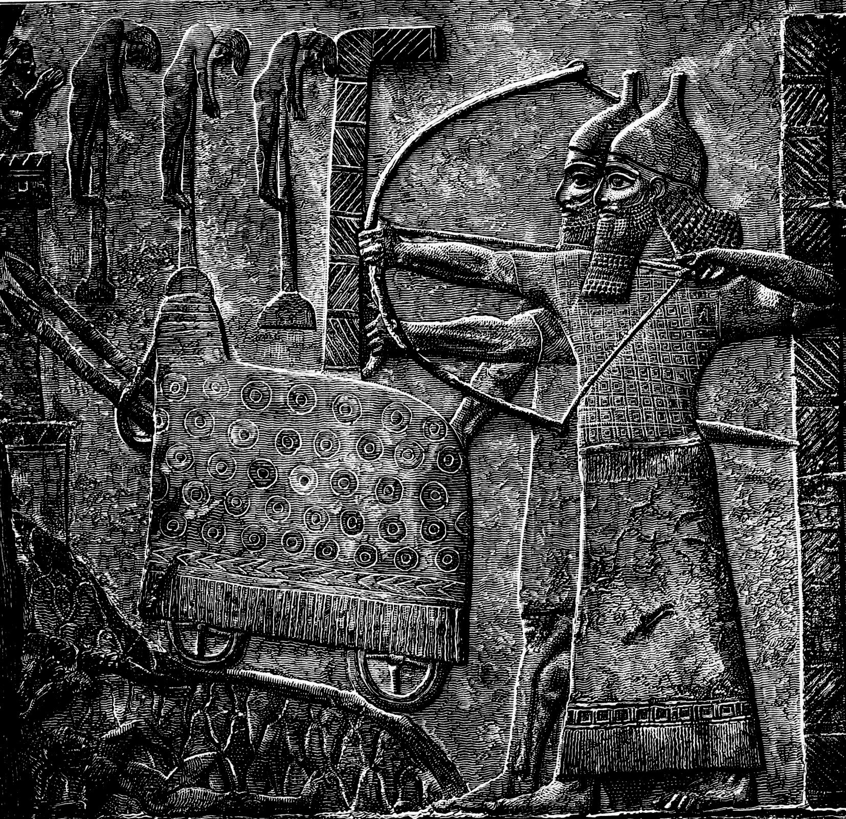 Illustration of Assyrian relief of Tiglath-Pileser III besieging a town. From Nineveh; in the British Museum. See File:C+B-Siege-Fig2-AssyrianArchers.PNG for a sketch of the relief.